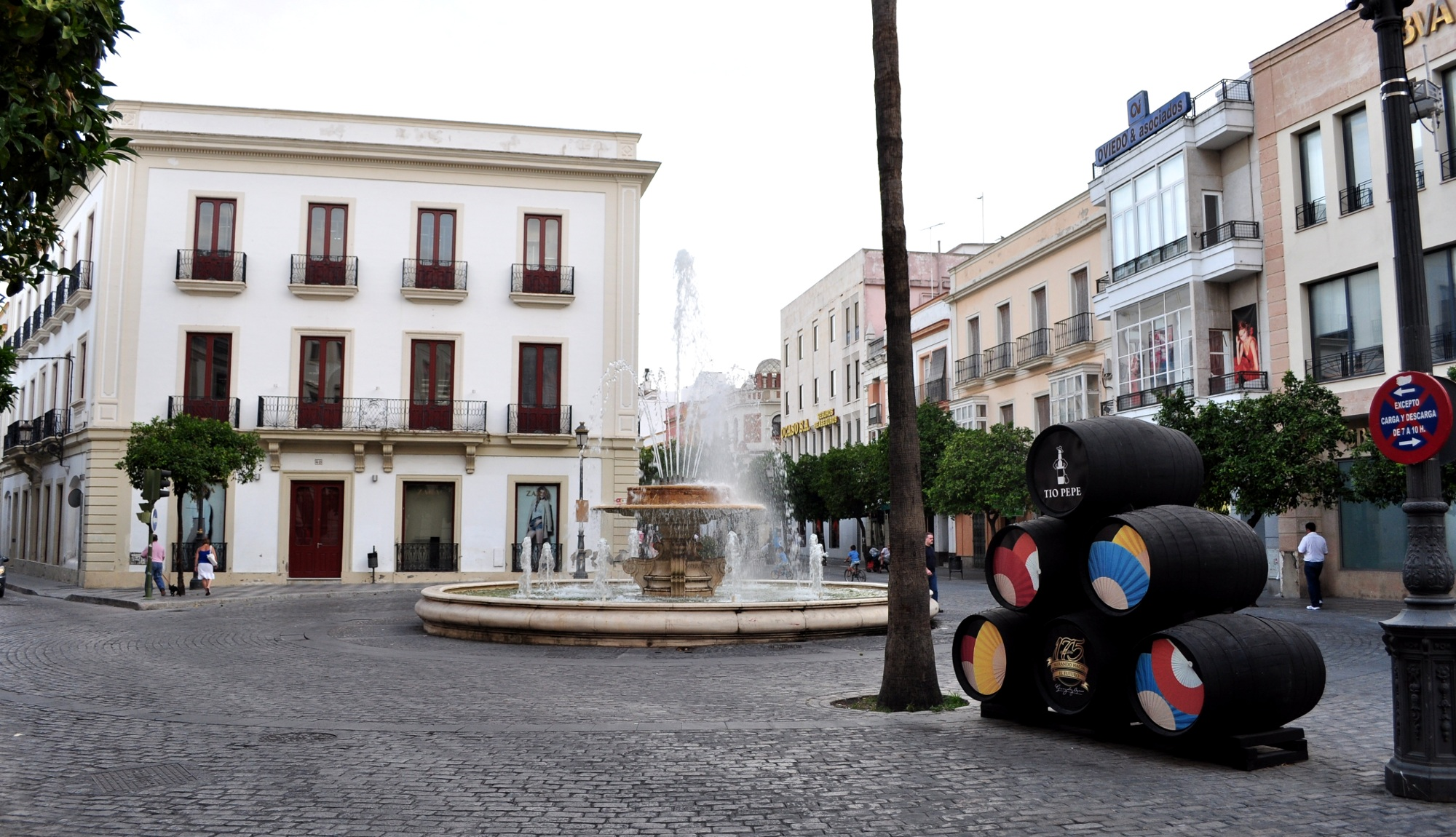 Casino roundabout, Jerez